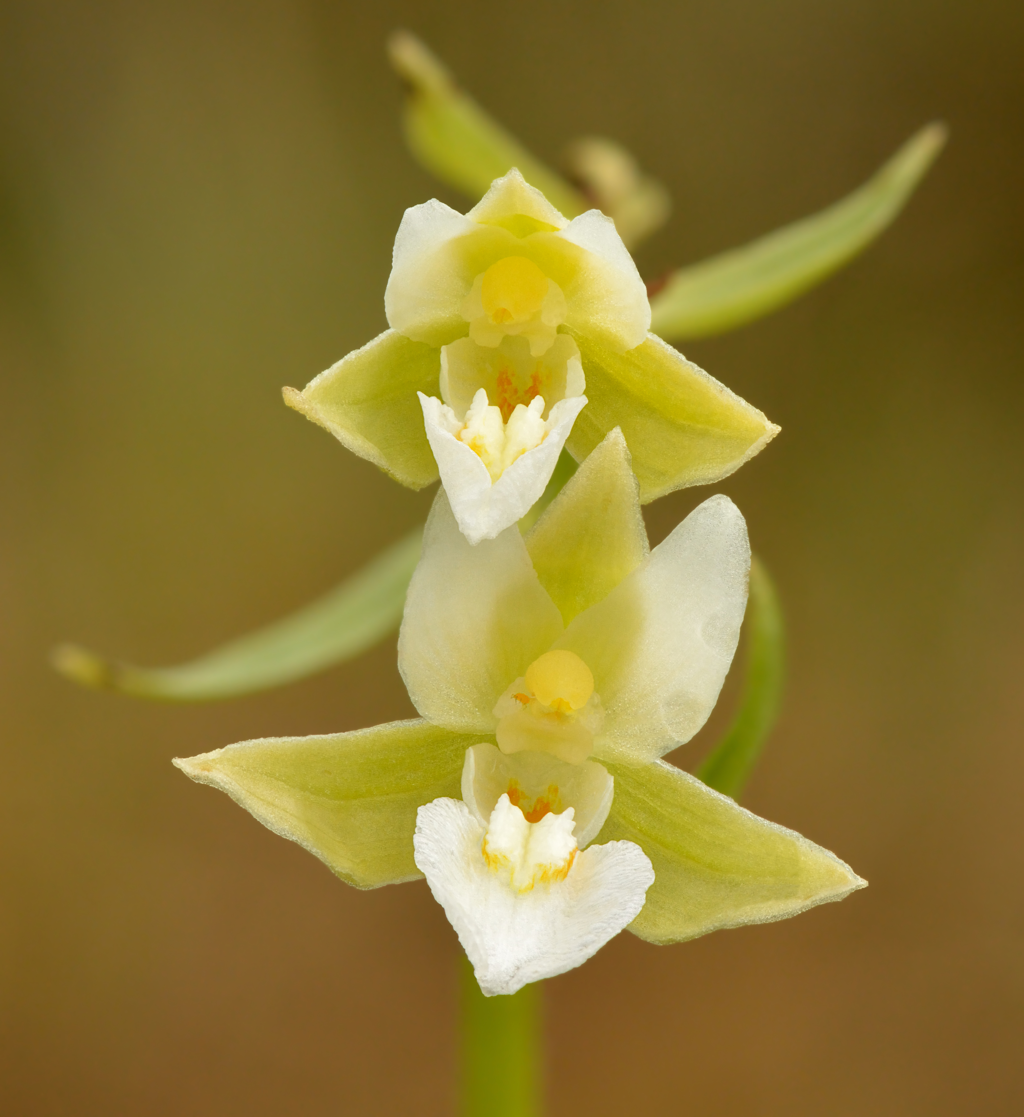 A pale variety of marsh helleborine (Epipactis palustris var. ochroleuca). Niitvälja bog, Northwestern Estonia.